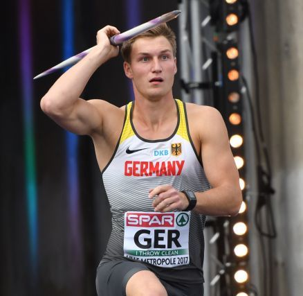 Thomas Röhler during 2017 European Team Champioships - Super League